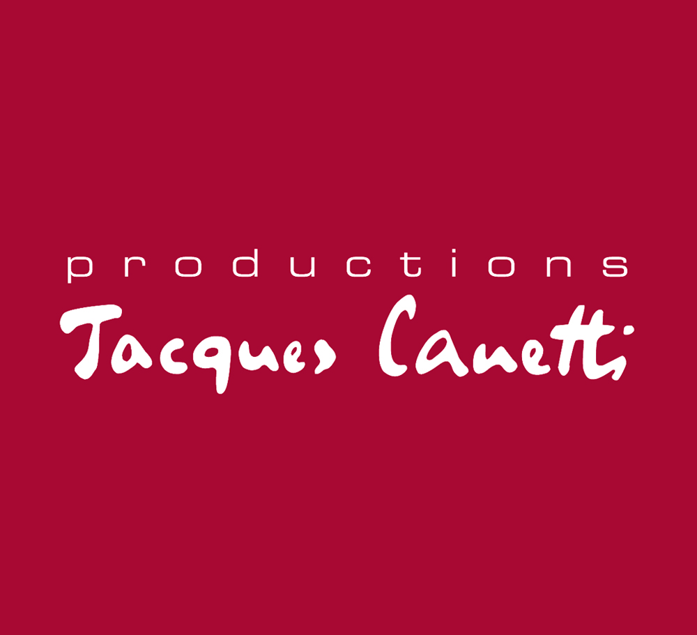 Logo of Productions Jacques Canetti